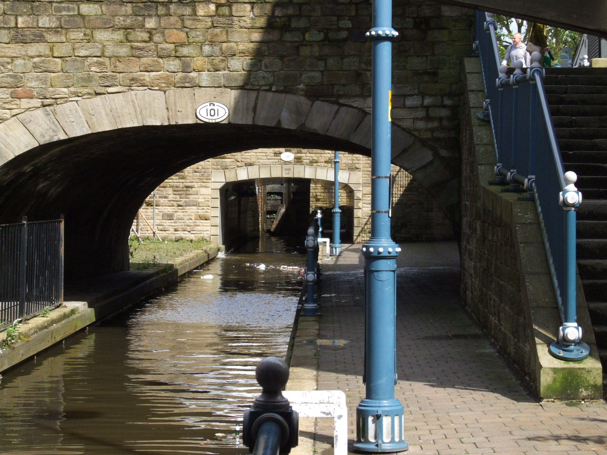 The Stalybridge, is a town in Thameside, Greater Manchester,England. The Huddersfield Narrow Canal passes through the town. Armentière and Melbourne Street bridges.